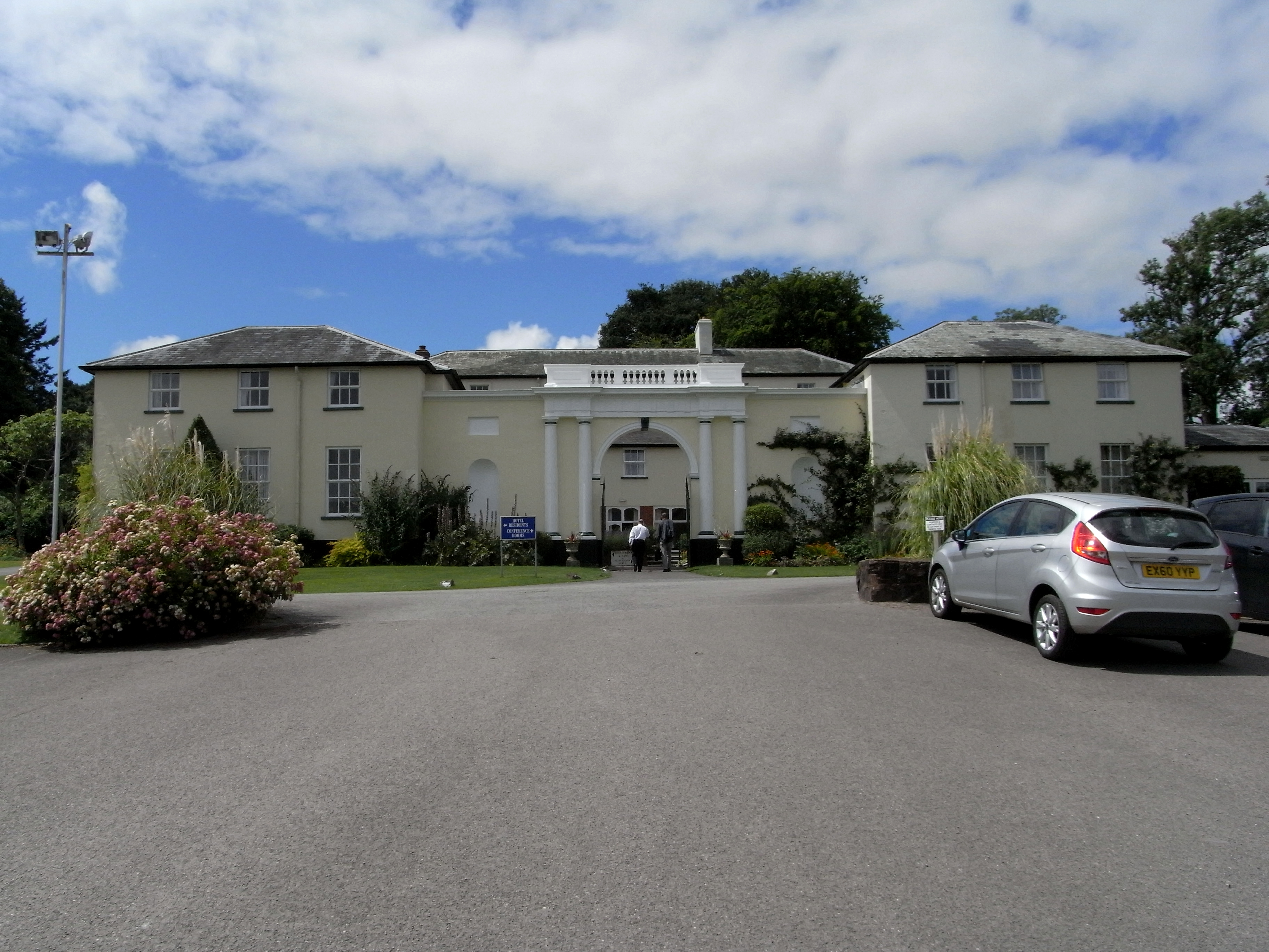 North Pavillions, former stable block and a remnant of Haldon House, in the parish of Dunchideock, Devon. The main house was to the left (south), with a matching pair of pavillions on the south side (all demolished, excepting ruined chapel now converted into a house). With later buildings behind, it now serves as the "Lord Haldon Hotel"